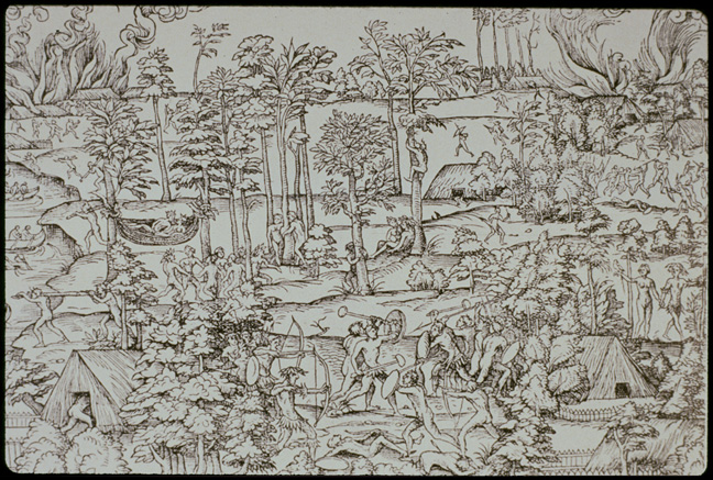 A picture of the Brazilian village constructed in Rouen, France in 1550